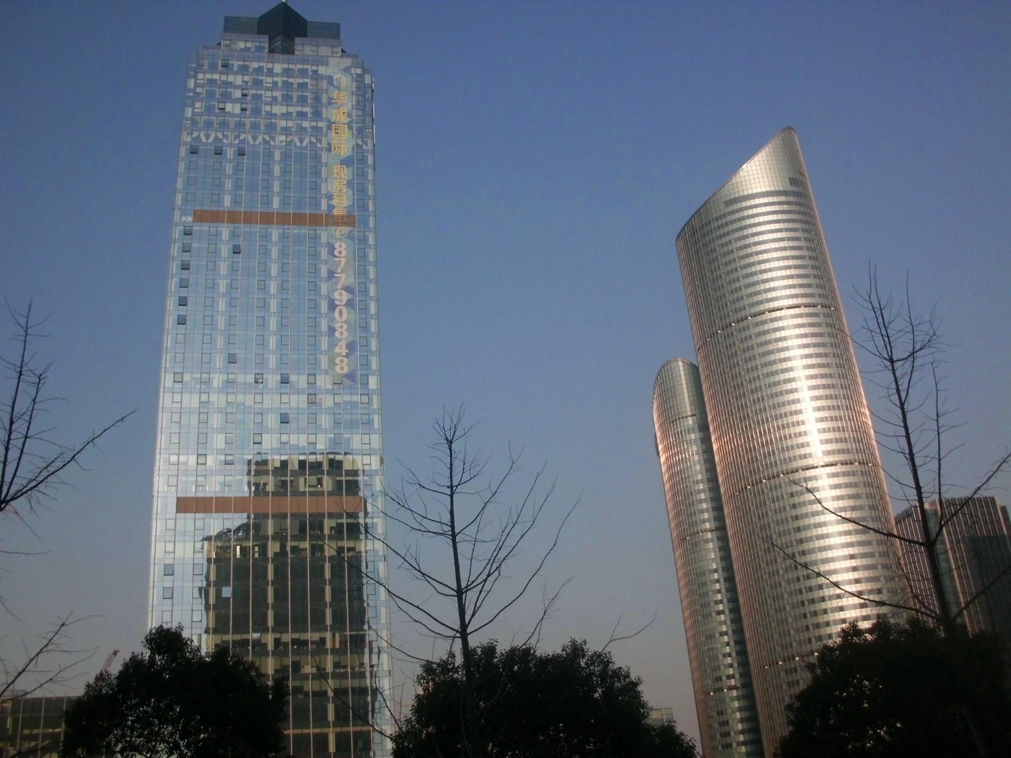 Huacheng mansion and ZheJiang Fortune & Finance Center